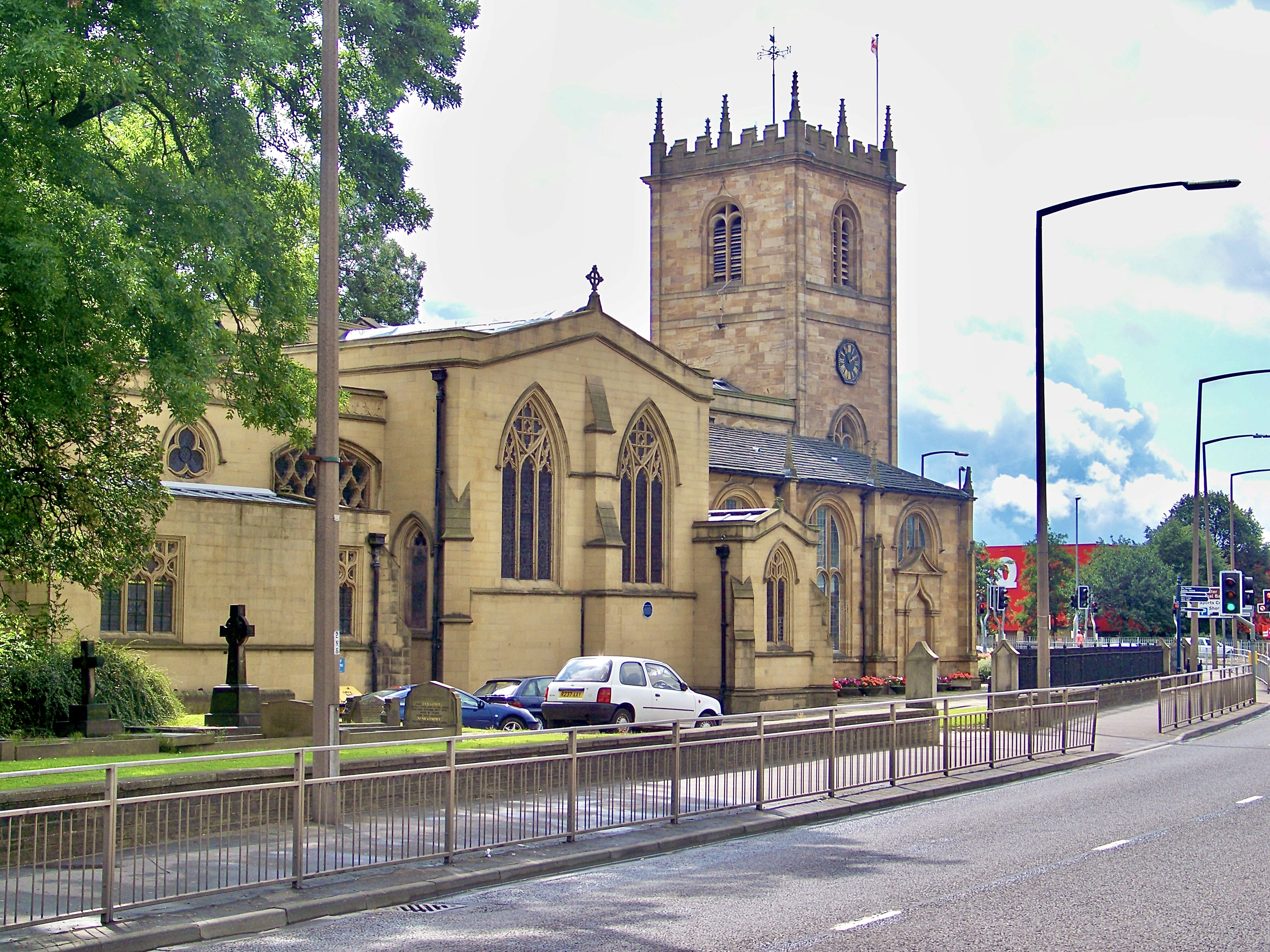 Dewsbury Minster, Dewsbury, West Yorkshire. Taken on the afternoon of Saturday the 15th August 2009.